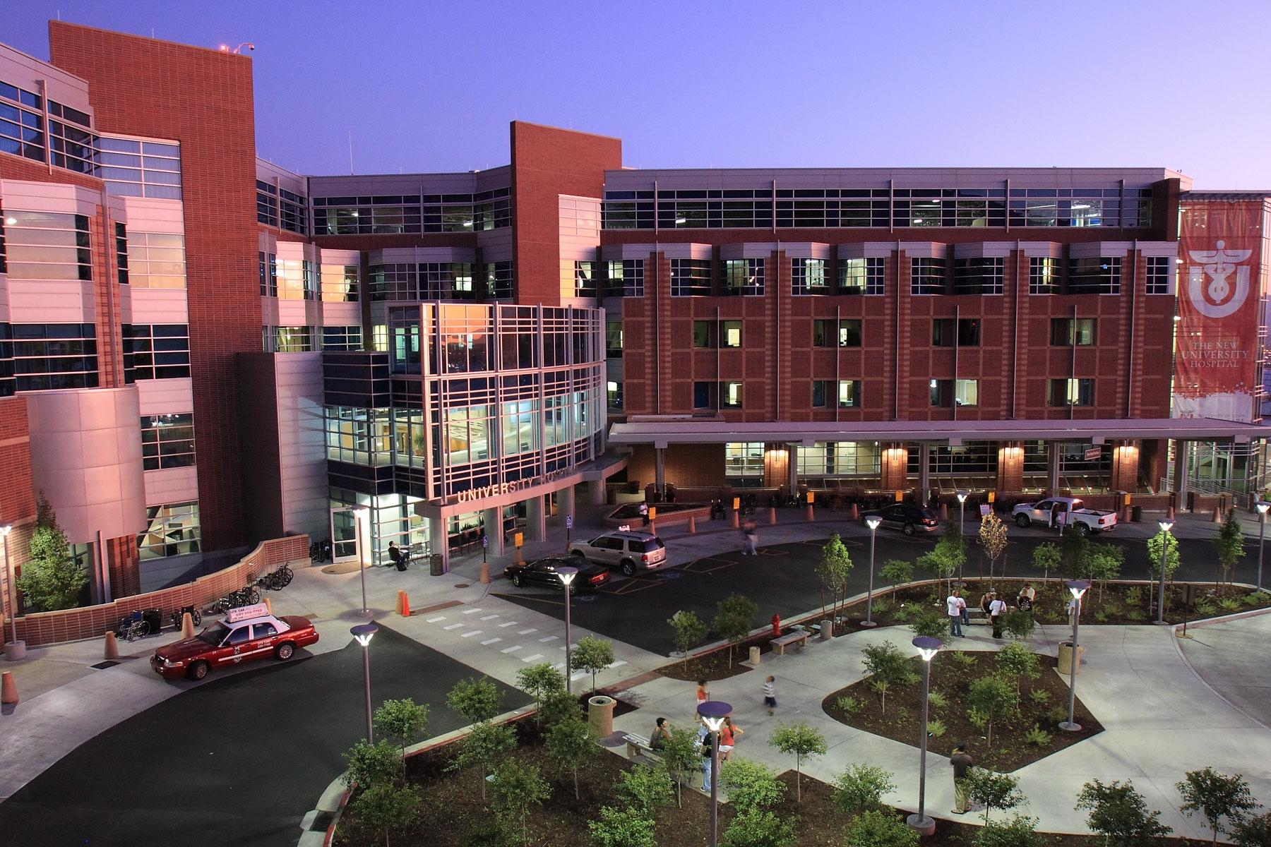 University of Utah Hospital